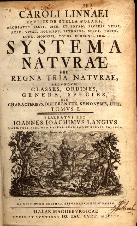 Cover of Systema Naturae, 10th edition, not the original from 1758 but a modified reprint version from 1760 not printed in Sweden (but in Halle, Germany). The text of the title page was not identical in orthography with the original edition published in 1758 in Stockholm, the letters æ and u in the original Swedish edition (Linnæi, naturæ, tomus etc.) were replaced by ae and v in the German edition (Linnaei, natvrae, tomvs etc). Since all zoological works published by the author in Sweden between 1735 und 1761 and authorized by himself spelled æ and not ae, this title page is not representative for illustrating the original work of Carl Linnæus.